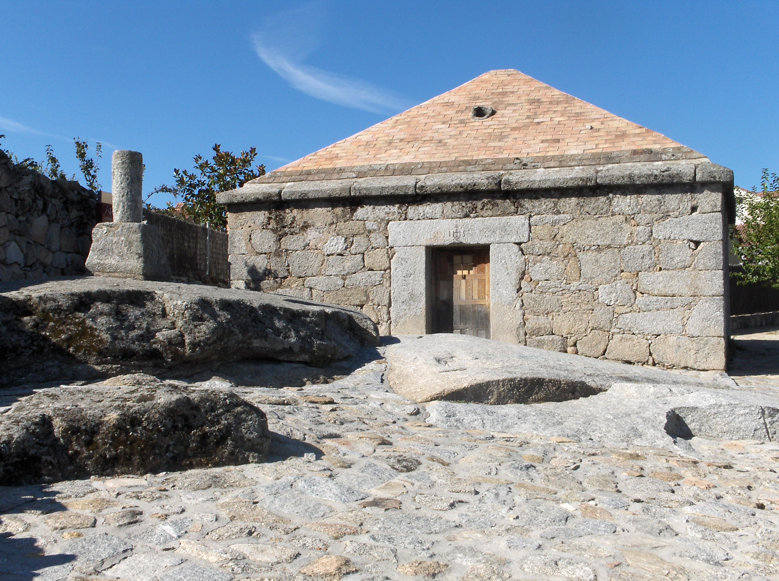 El Bombo, Chapinería